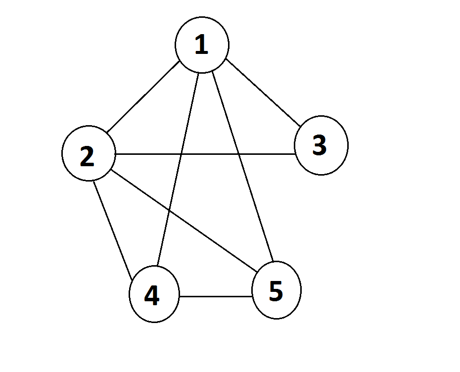 do thi goc